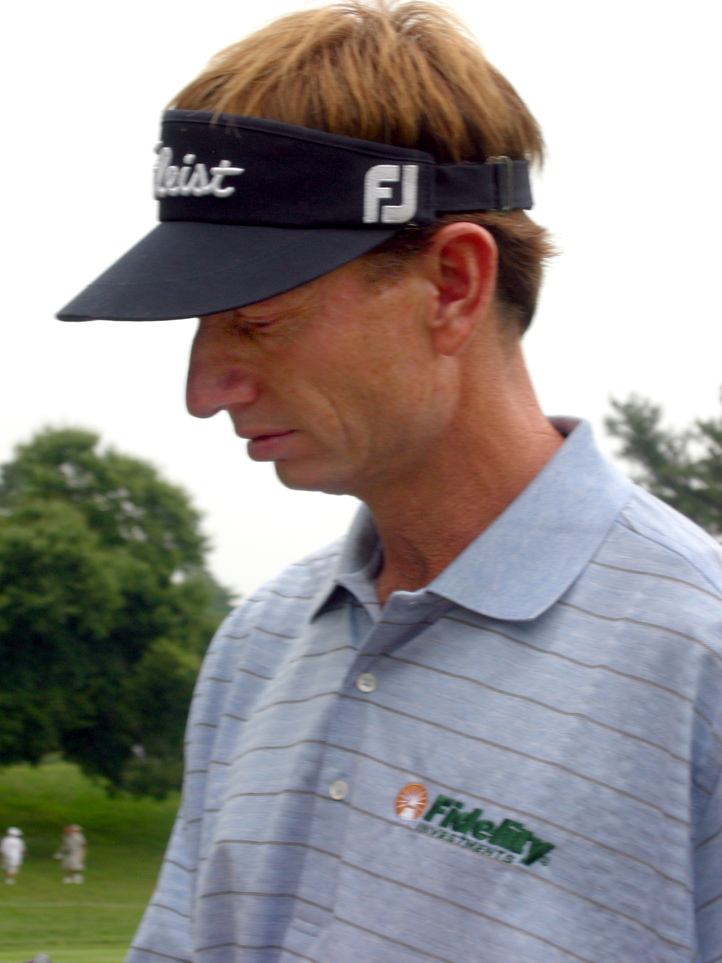 Brad Faxon signing autographs on the 8th green of the Congressional Country Club during the Earl Woods Memorial Pro-Am prior to the 2007 AT&T National tournament.